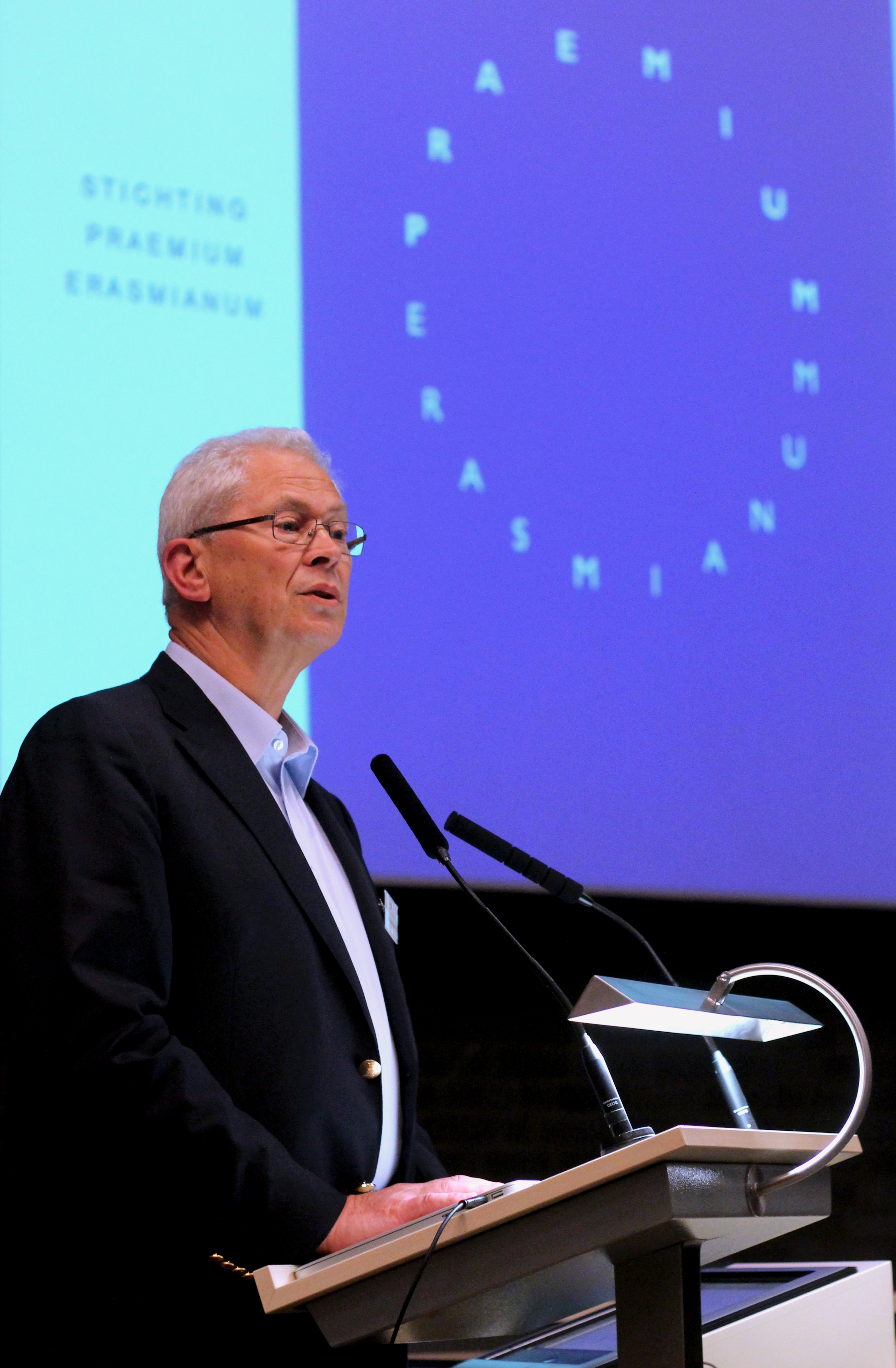 KNAW minisymposion, januari 2015.